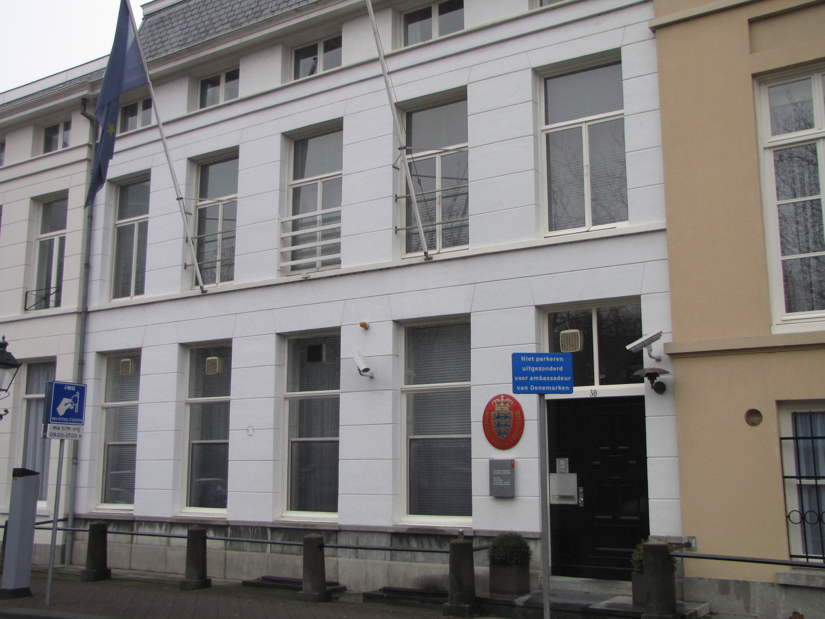 Ambassy of Danmark, the Hague (Netherlands)